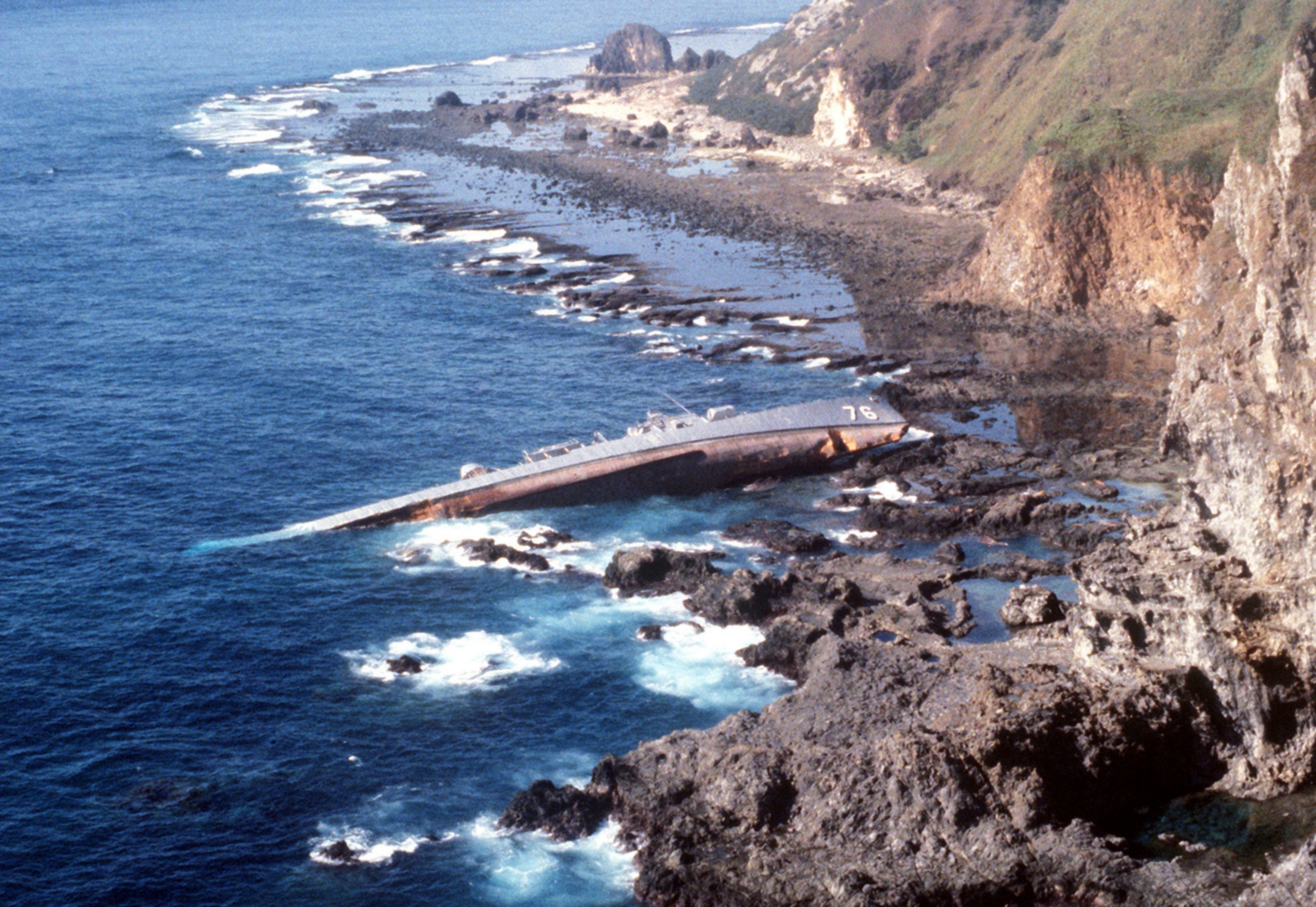 The foundered Philippine frigate BRP Datu Kalantiaw (PS-76) on 22 September 1981. She was driven aground during Typhoon Clara on 21 September 1981 on the rocky northern shore of Calayan Island, in the northern Philippines. 79 of the crew of 97 died. The Datu Kalantiaw had originally been commissioned as the U.S. Navy Cannon-class destroyer escort USS Booth (DE-170), in 1943.